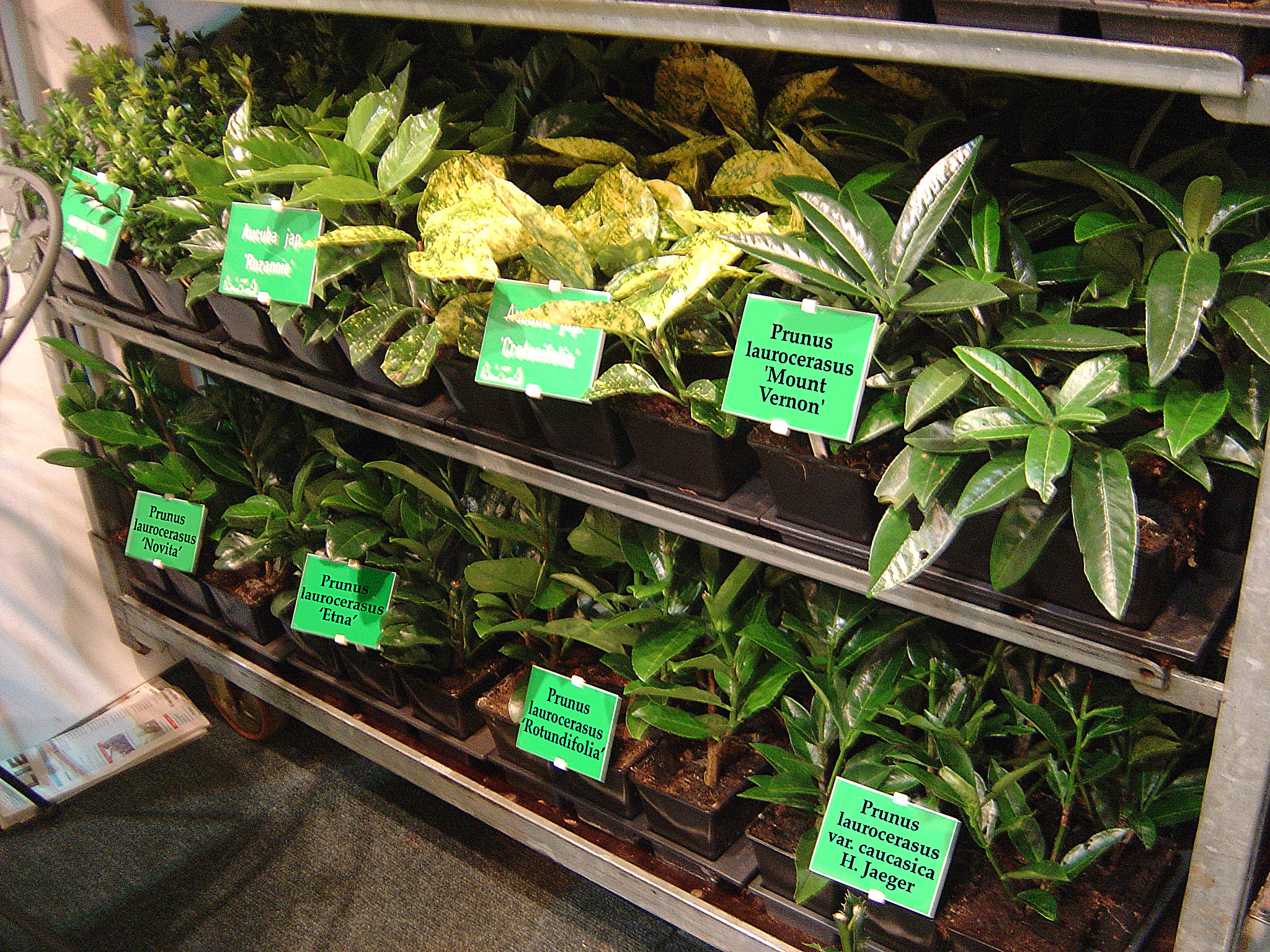 Cultivars of Prunus laurocerasus on Essen horticulture fair